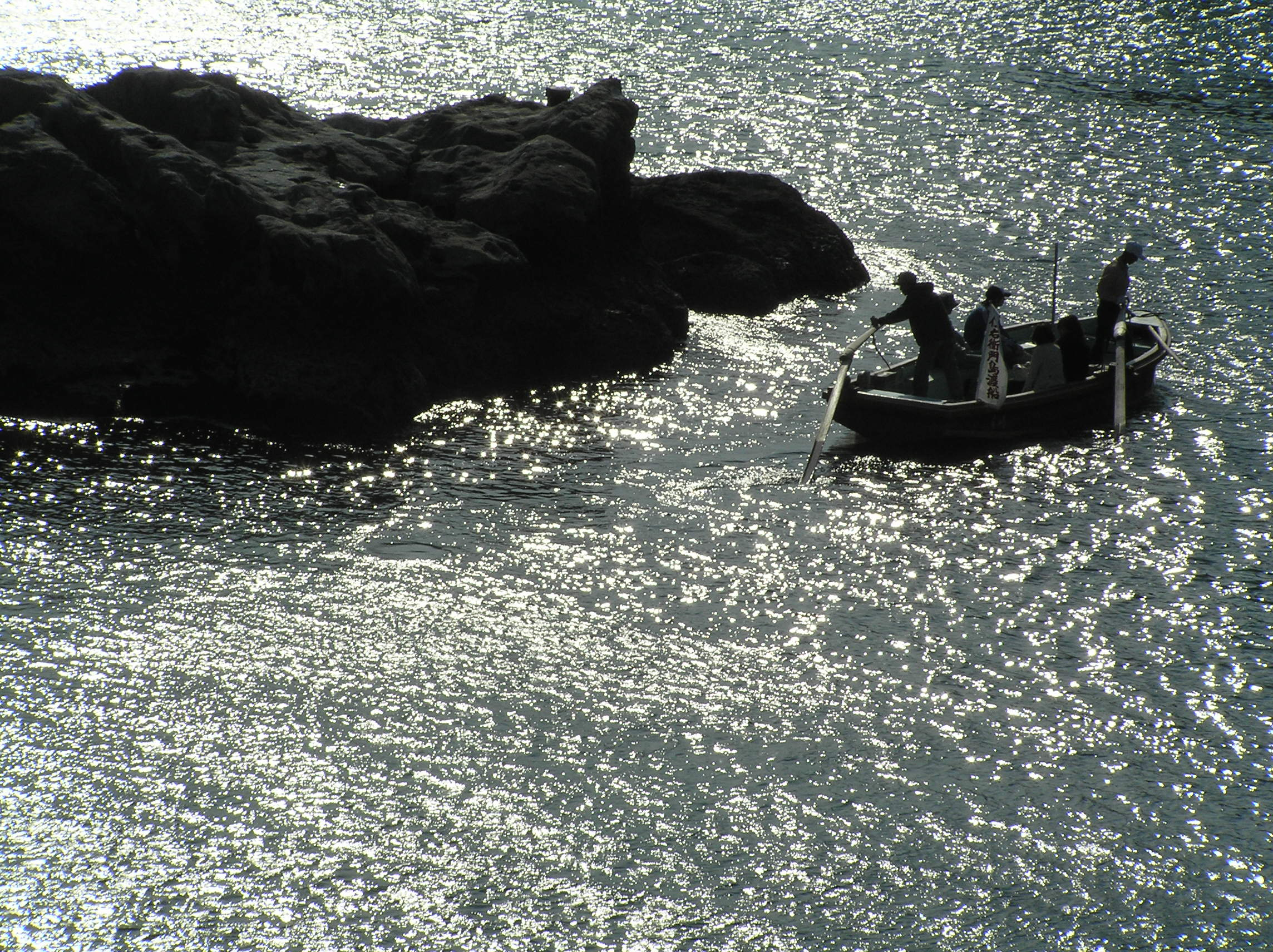 Niemonjima.